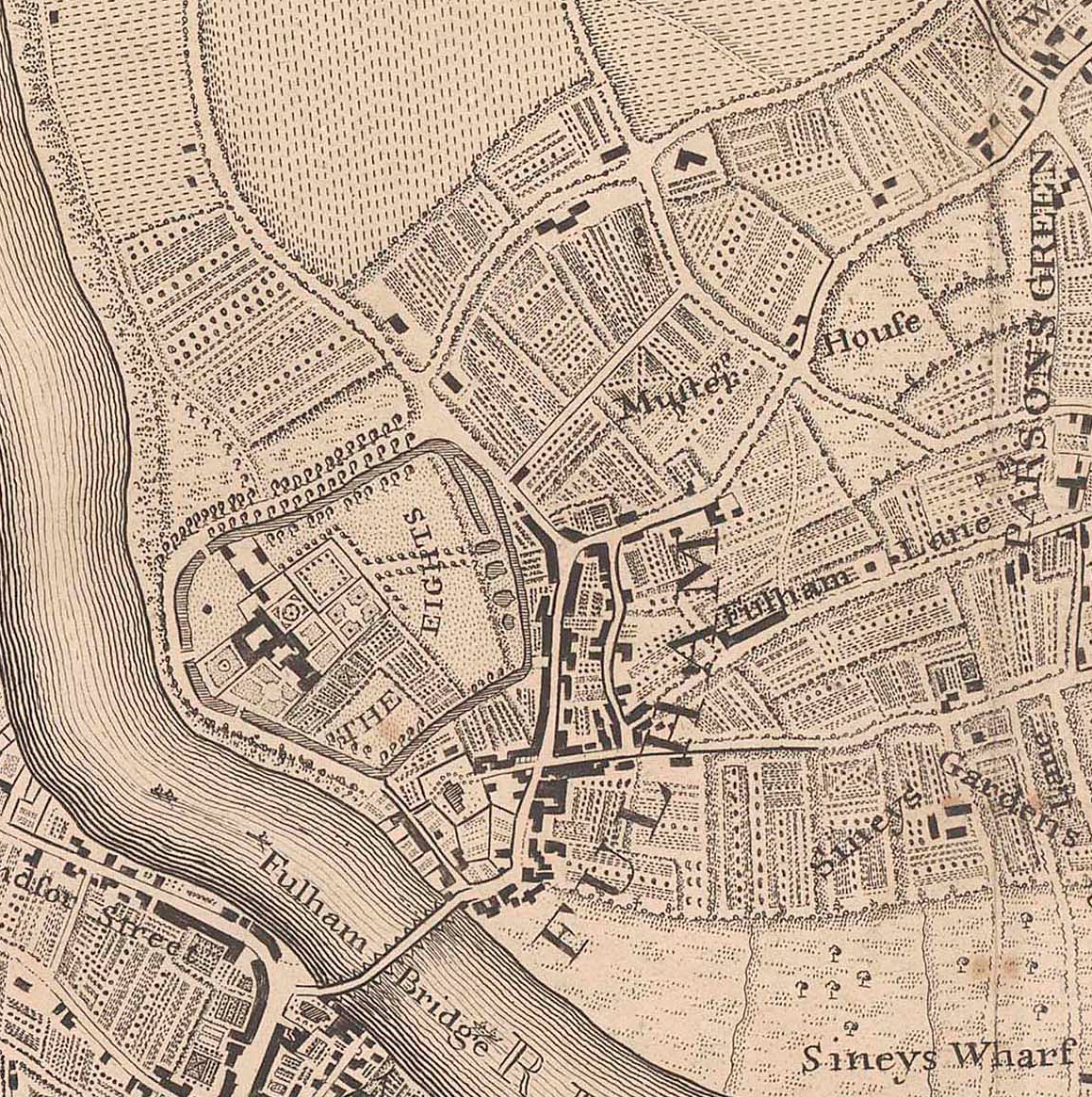 Westminster and Vauxhall, 1746